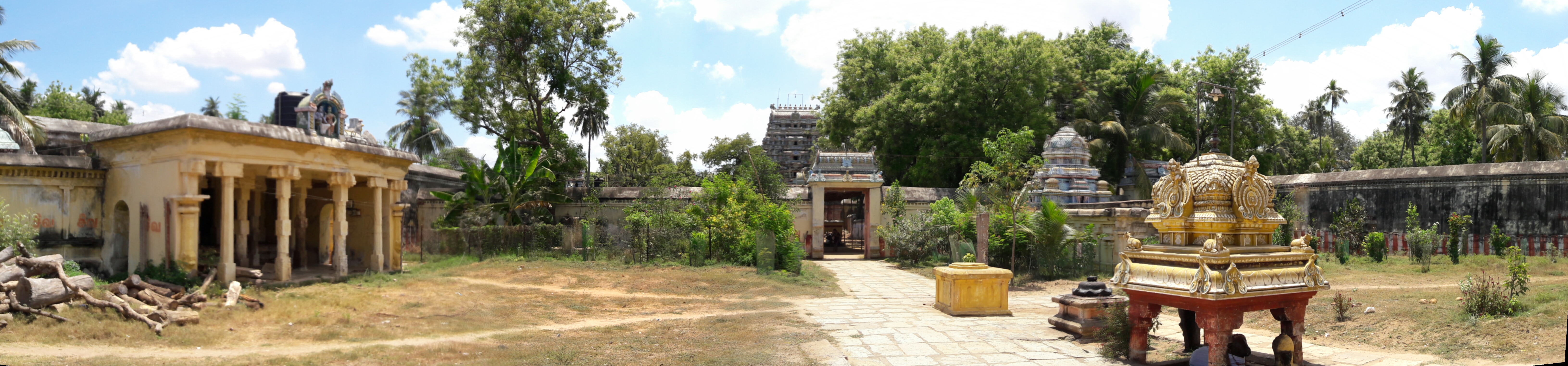 Pushpaneswarar temple, Thirupanthuruthi